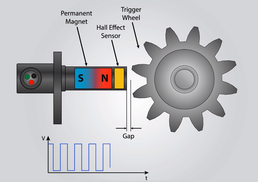 Wheel speed sensor